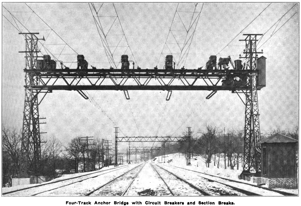 Catenary Bridge from New Haven 1907 Electrification.